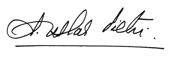 Signature of Venezuelan writer Arturo Uslar Pietri.